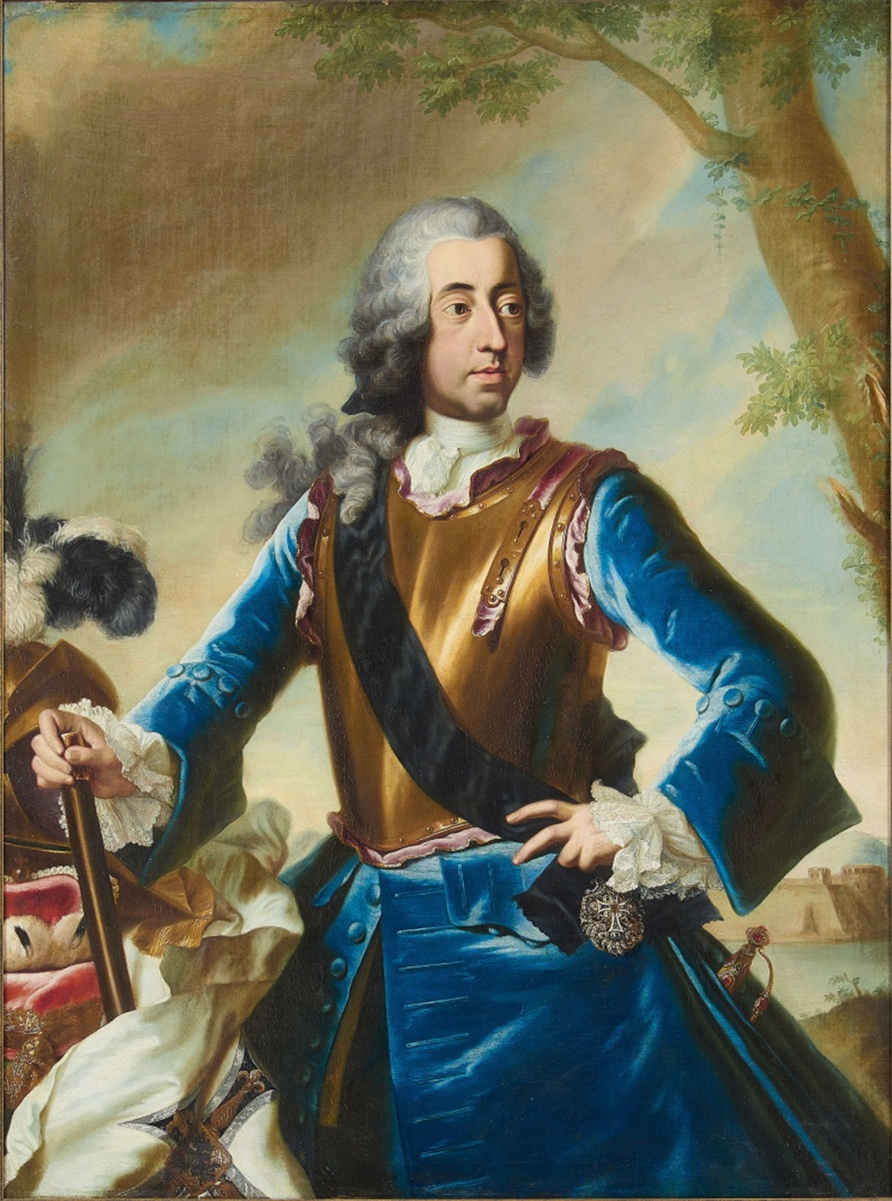 Clemens August of Bavaria as Grand Master of Teutonic Knights